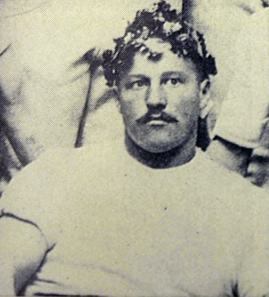 Georges de Regibus, Swiss sportsman who introduced association football to Bulgaria in 1894